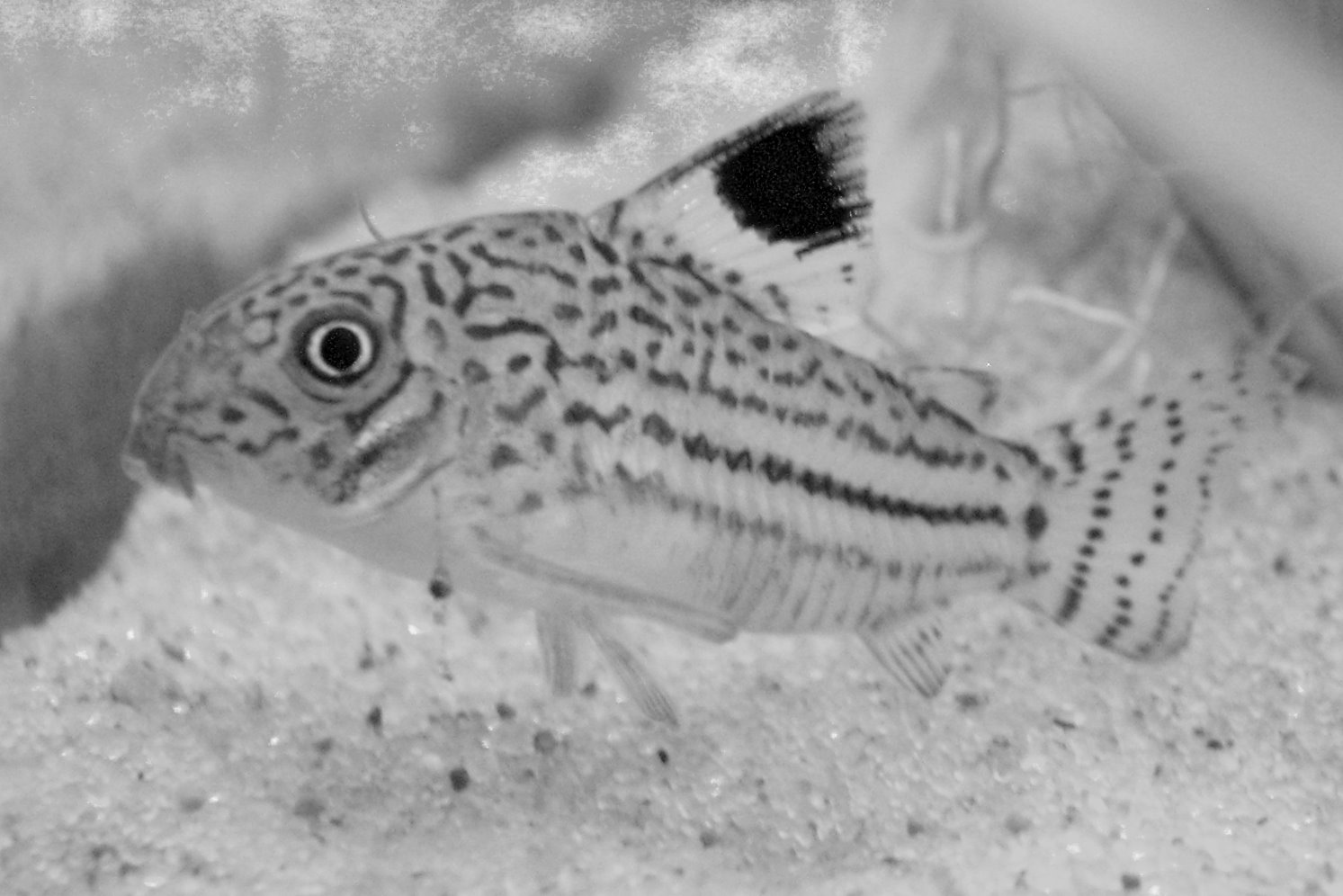 Corydoras trilineatus